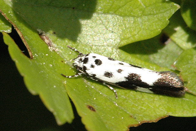 Picture taken in Commanster, Belgian High Ardennes . Species: Ethmia quadrillella